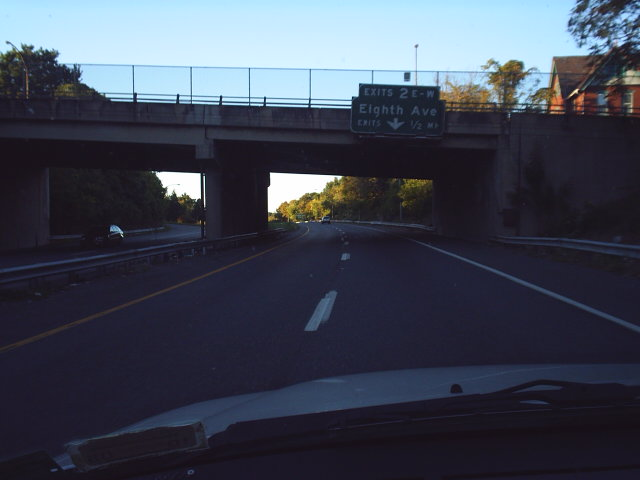 Pennsylvania State Route 378 heading northbound at Interchange 2E and Interchange 2W in Bethlehem, Pennsylvania.